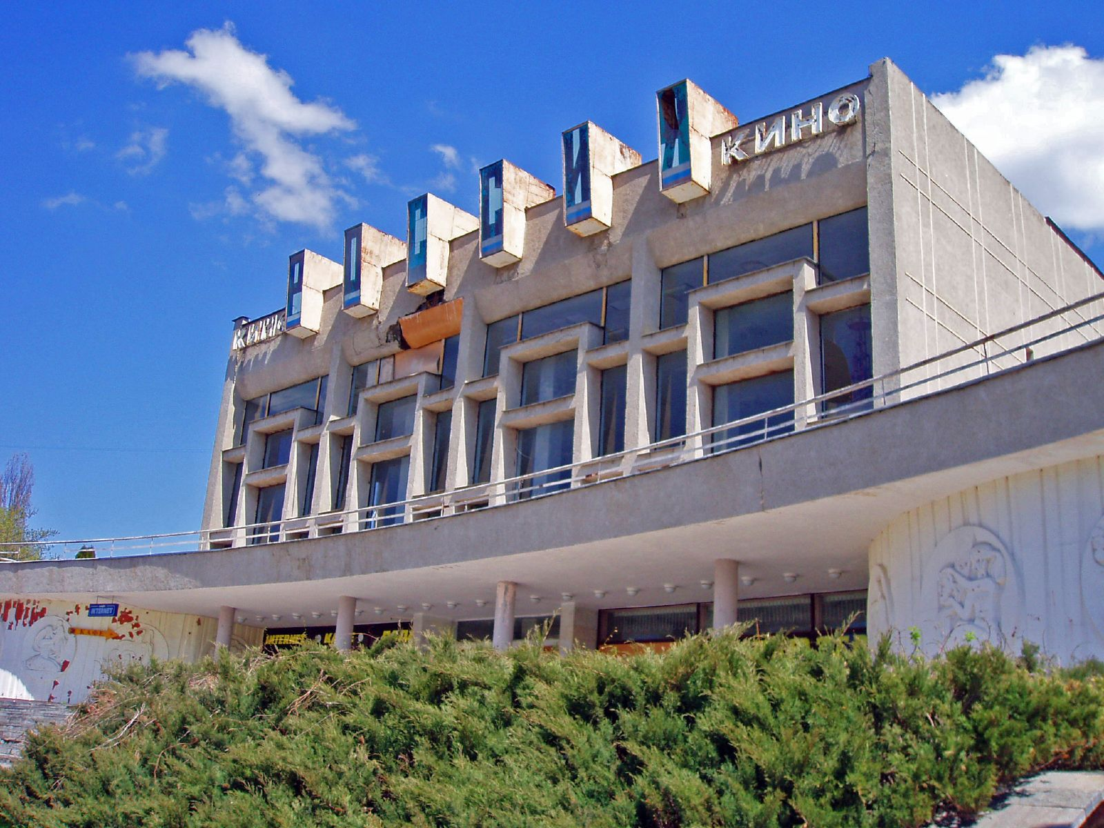 The Modernist style cinema in Cherkessk — capital of the Karachay-Cherkessia Republic, southwest Russia.